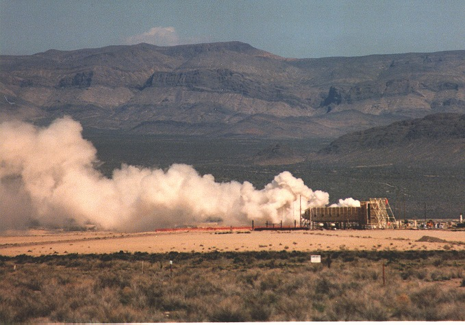 Nevada Test Site, Area 5. Hazardous Material Spill Center wind tunnel in operation.